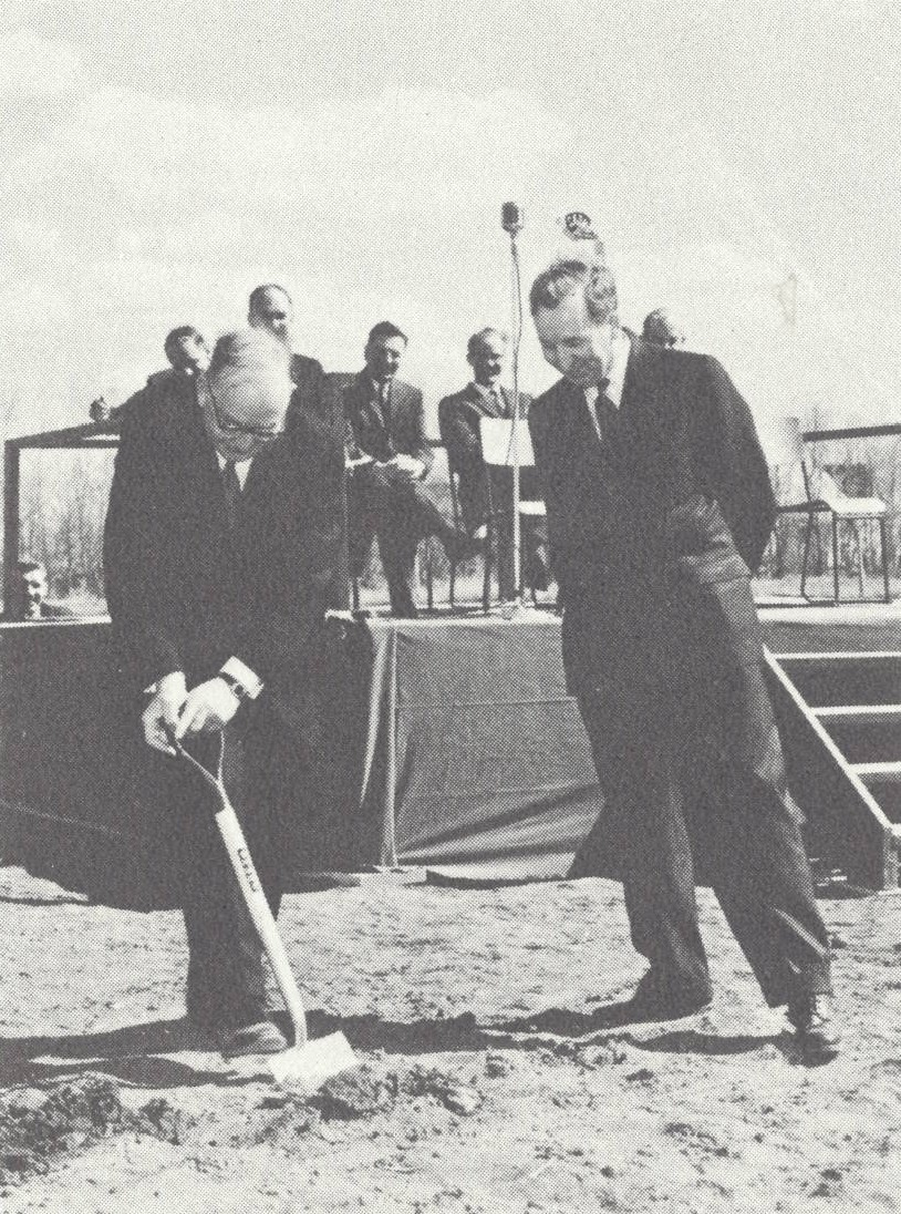 Sir John Cockcroft, Nobel laureate, turns the first sod for the Saskatchean Accelerator Laboratory. May 10th 1962. University of Saskatchewan President J.W.T. Spinks watches.